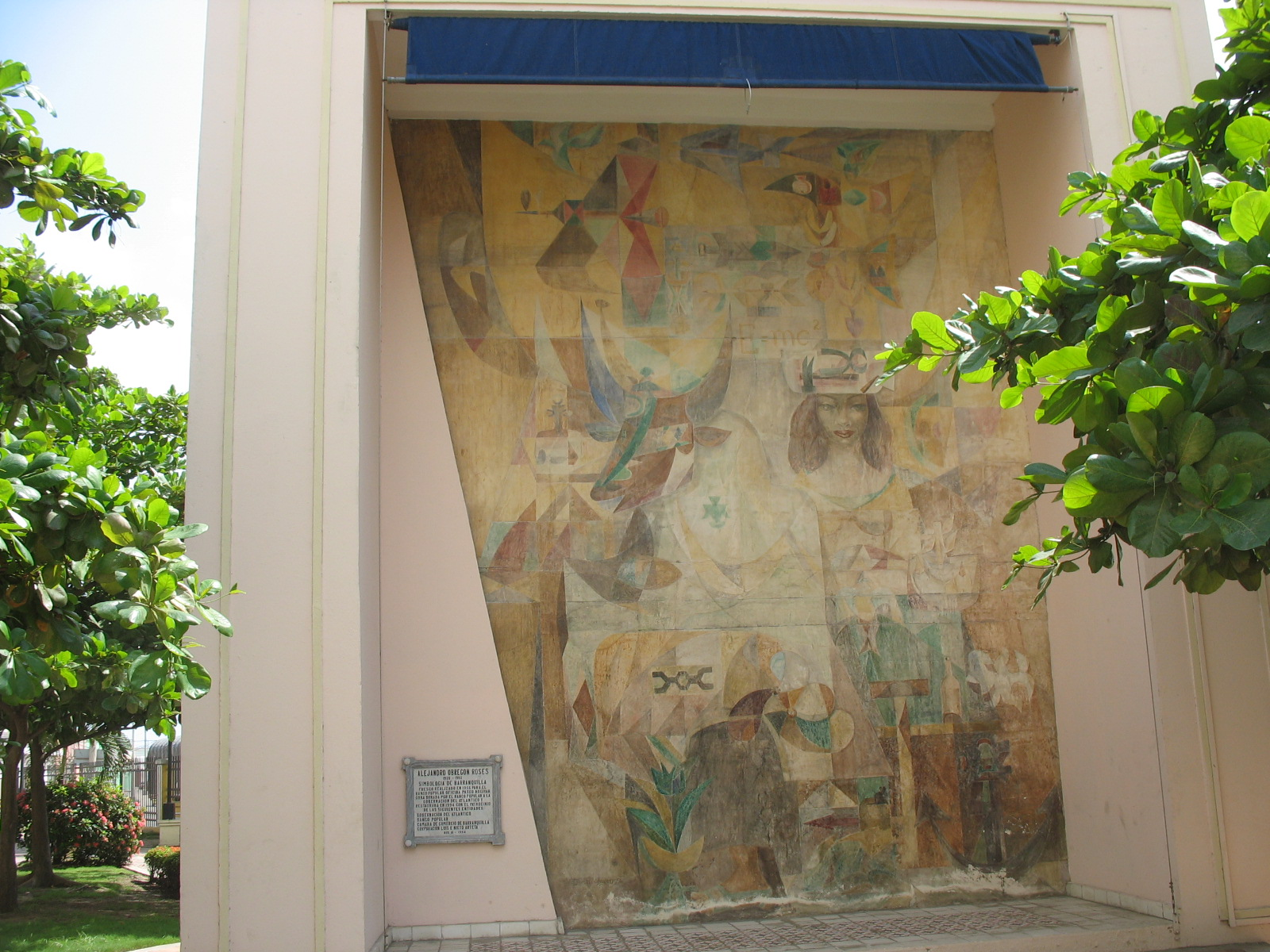 Simbología de Barranquilla